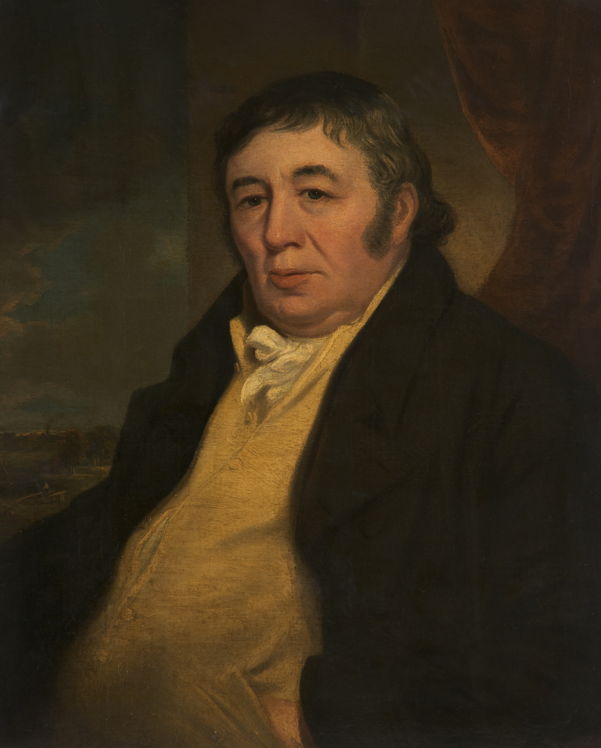 Peter Rothwell, Junior (1793–1849) by unknown artist